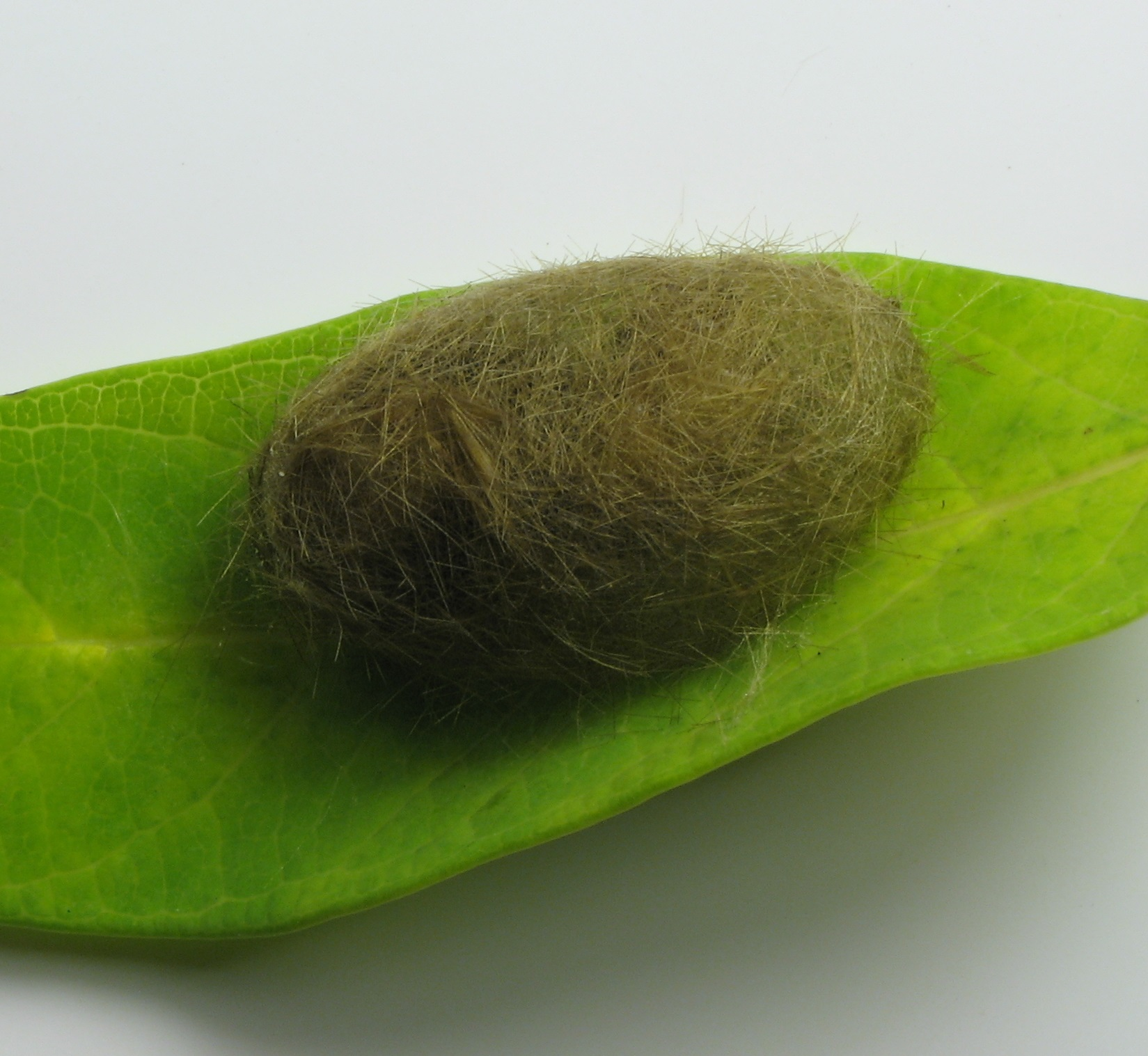 Cocoon of Halysidota tessellaris (banded tussock moth) on dogbane. Size: 18 mm. Pennypack Ecological Restoration Trust, Montgomery County, Pennsylvania, USA.